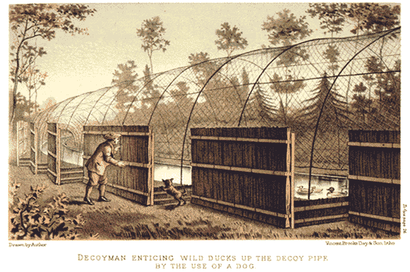 Picture demonstrating the use of a dog in a duck decoy